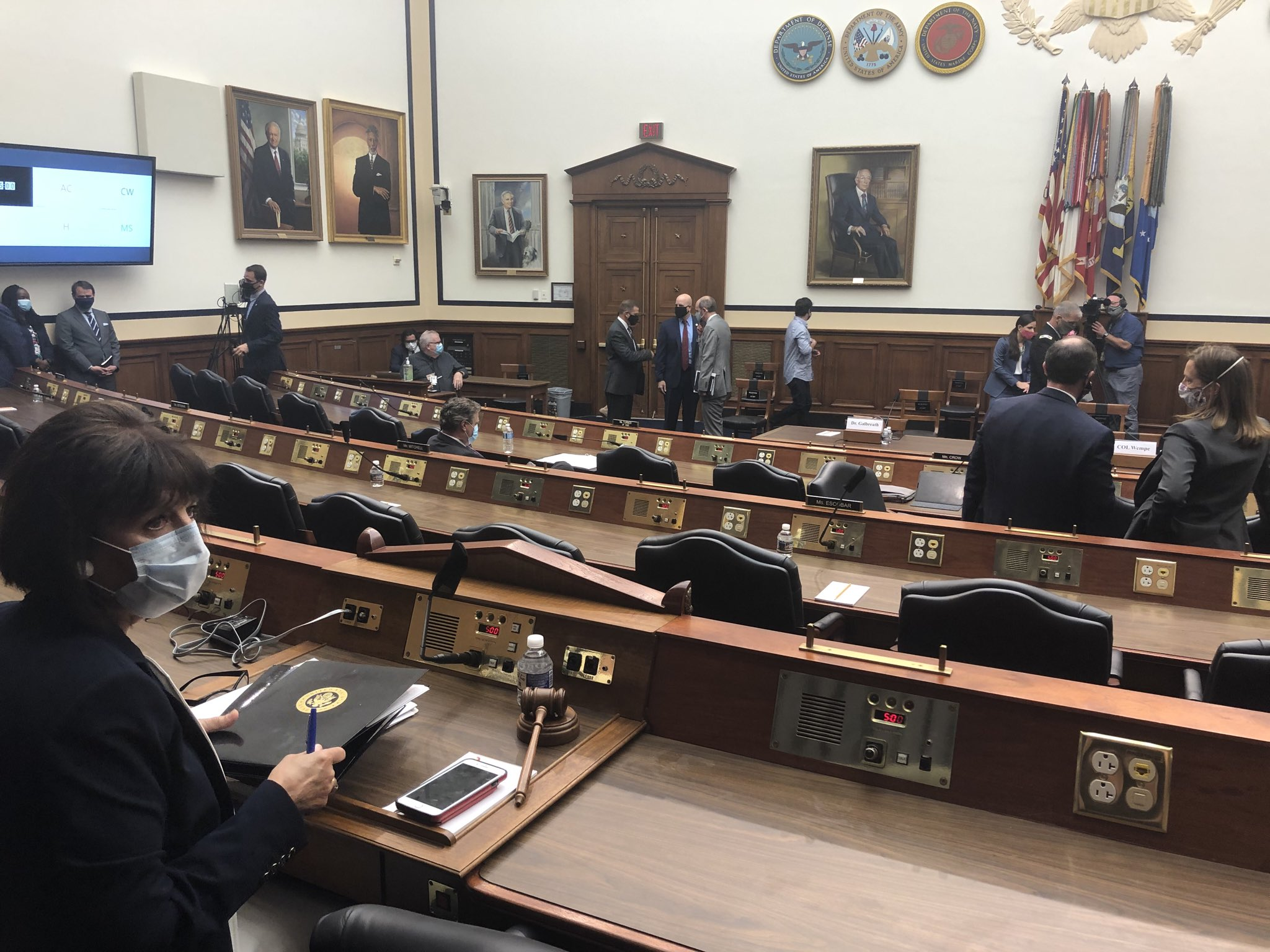 Chairing a MILPERS hearing on the military’s #MeToo moment, spurred by the harassment suffered by the late SPC Vanessa Guillen and the survivors who have come forward to share their horrific experiences as part of the #iamvanessaguillen and #JusticeForVanessaGuillen movement.